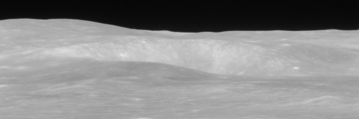 Highly oblique view of Carrillo crater, facing west, on the moon. Taken by Apollo 17 panoramic camera.